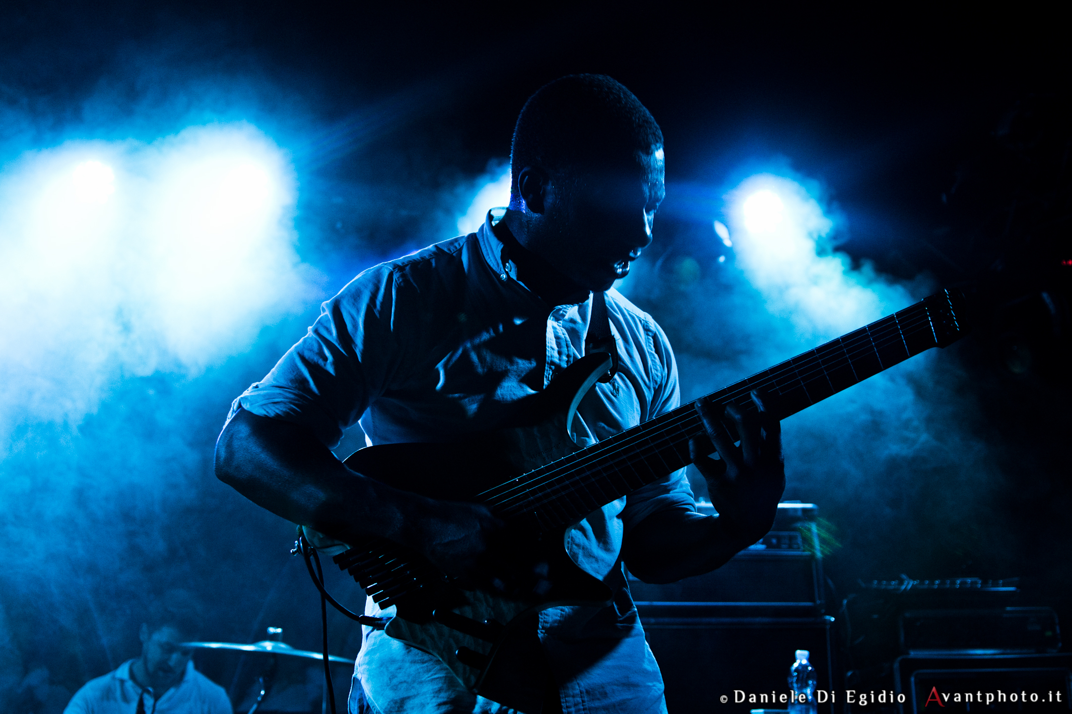 Animals as Leaders @Roma-circolo degli artisti 2011